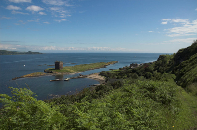 Castle Island, near Little Cumbrae, Firth of Clyde, Scotland